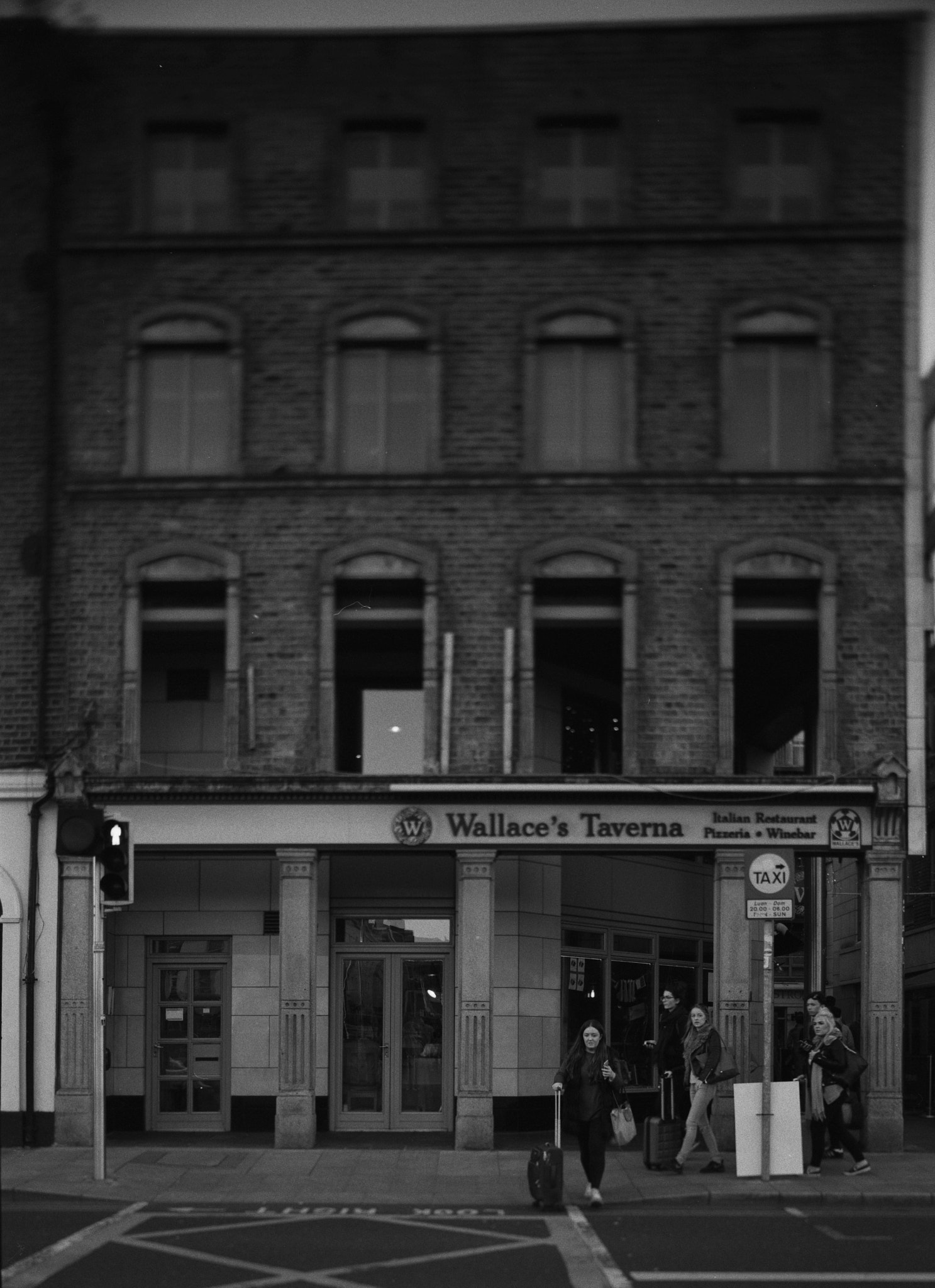 500px provided description: Part 2 / # 2 [#Historical ,#River ,#Dublin ,#City centre ,#Quays ,#River liffey]